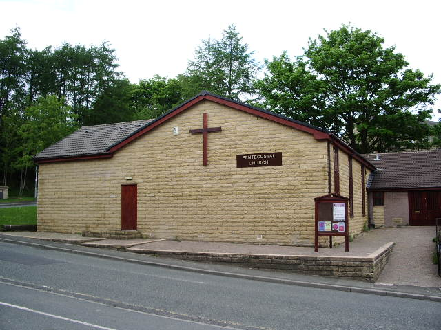 Ramsbottom Pentecostal Church, Carr Street, Ramsbottom, Greater Manchester, seen from the south